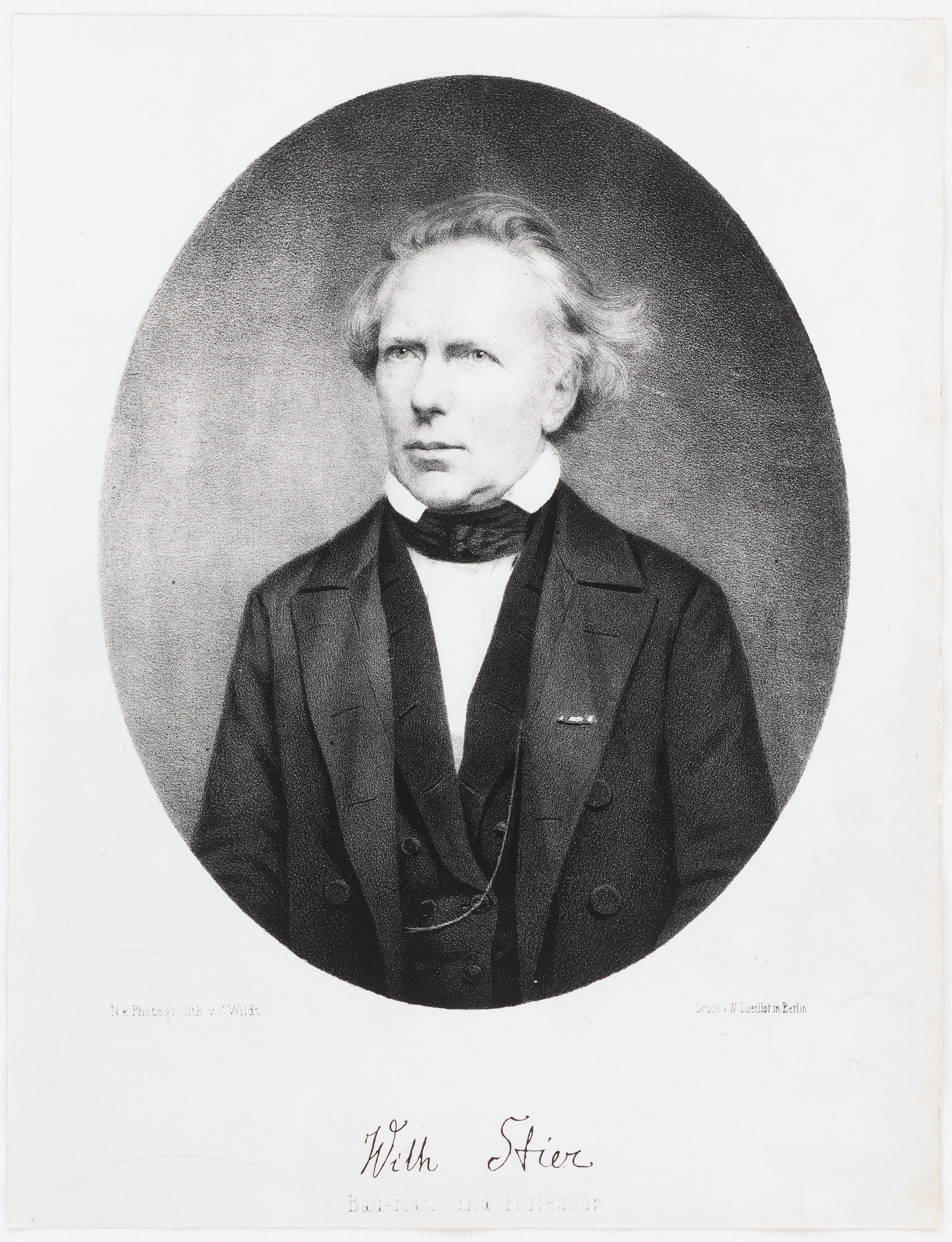 unbek. Künstler , Portrait Wilhelm Stier: Portrait von Wilhelm Stier. Lichtdruck auf Papier, 29,30 x 22,60 cm (inkl. Scanrand). Architekturmuseum der Technischen Universität Berlin Inv. Nr. 18346.